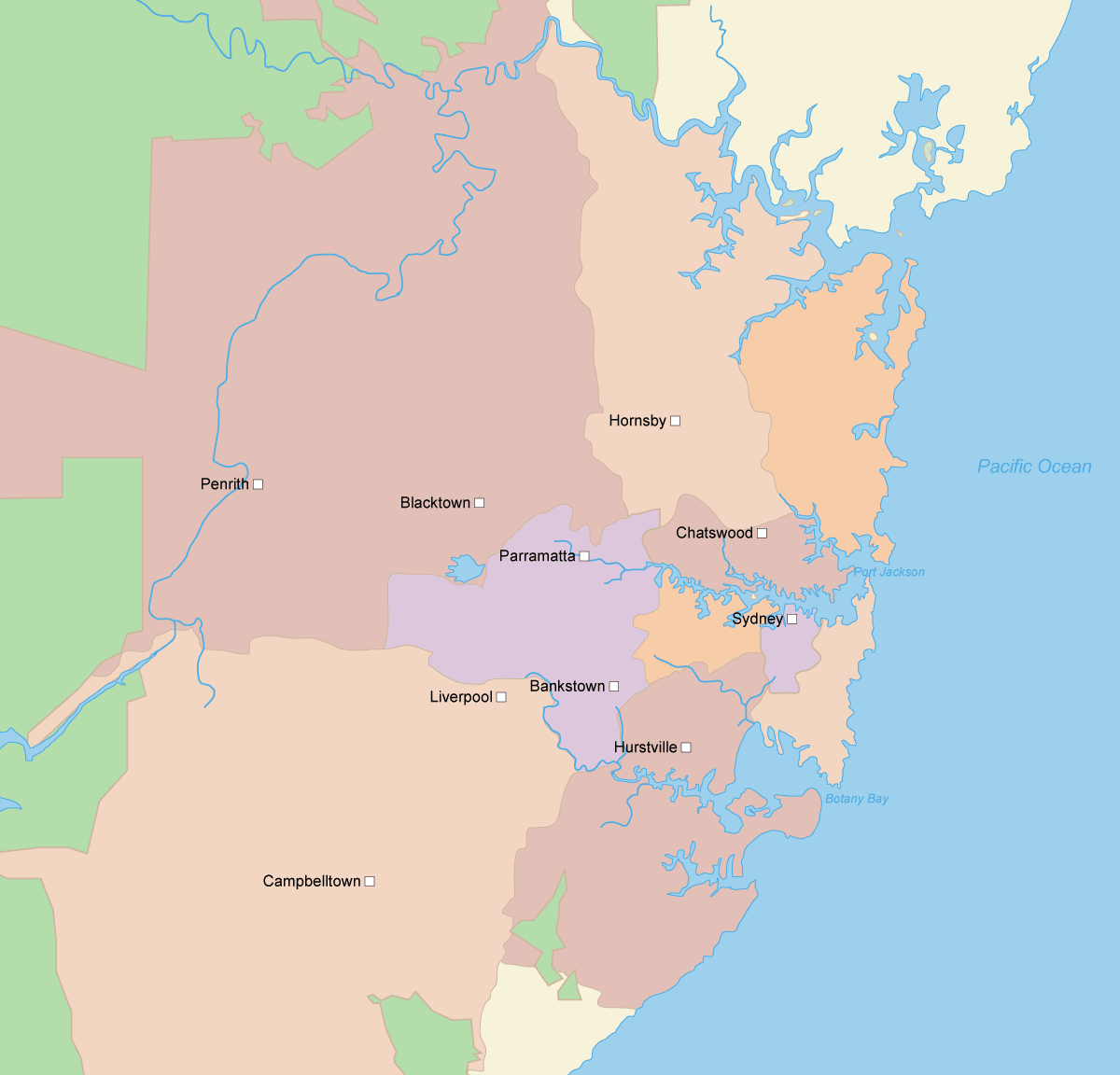 First draft of a map of Sydney regions.